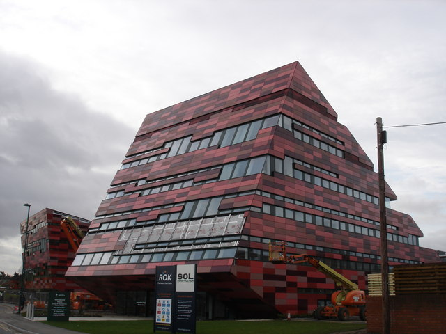 International House, Jubilee Campus, University of Nottingham